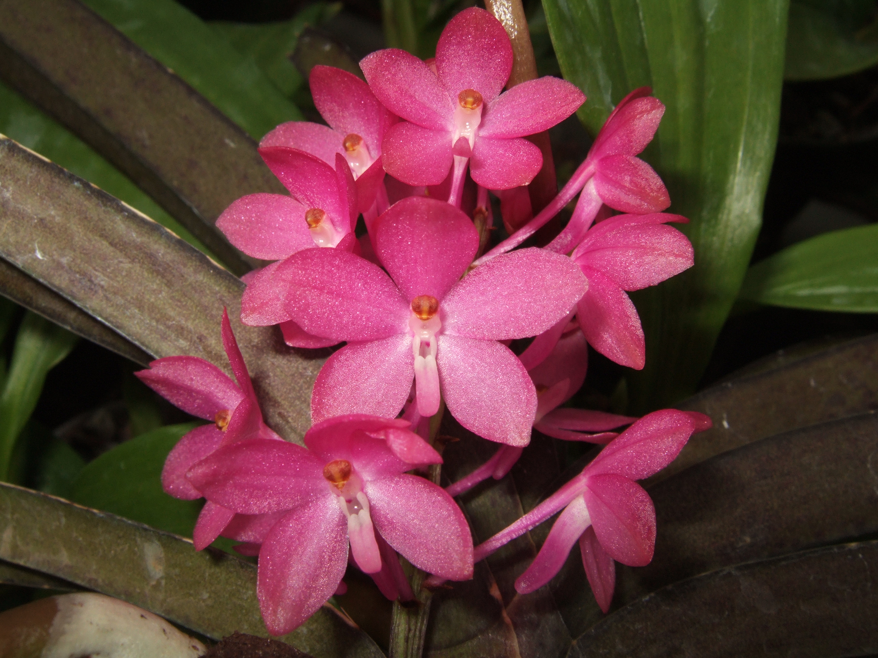 Ascocentrum ampullaceum, flower